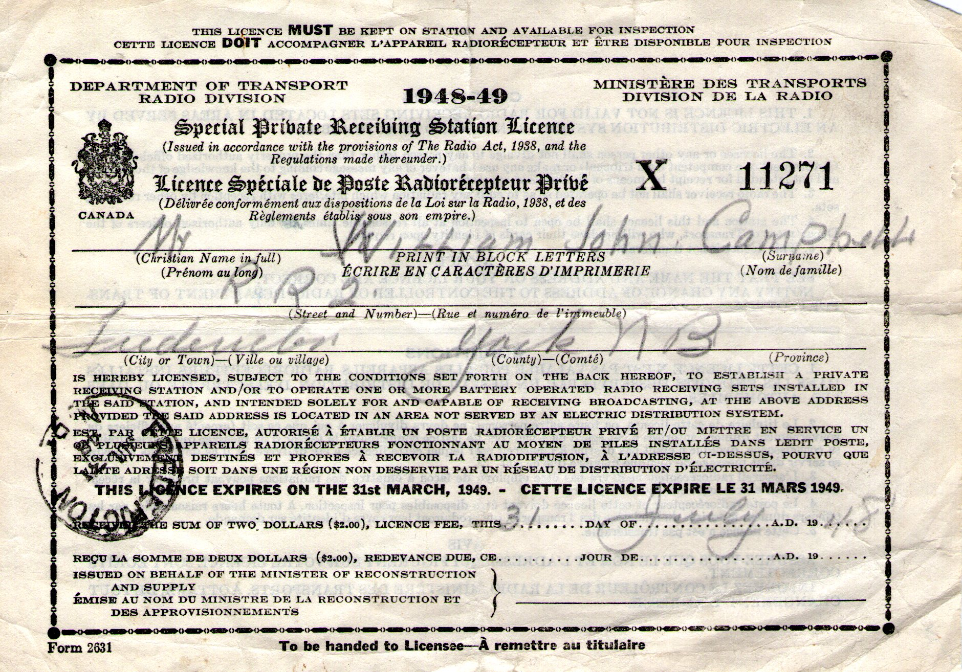 Canadian radio receiving station license, issued on 31 July 1948, Fredericton, N.B.